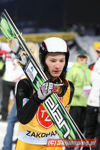 FIS Ski Jumping World Cup in Zakopane, 2008. Thursday trainings: Tomasz Byrt